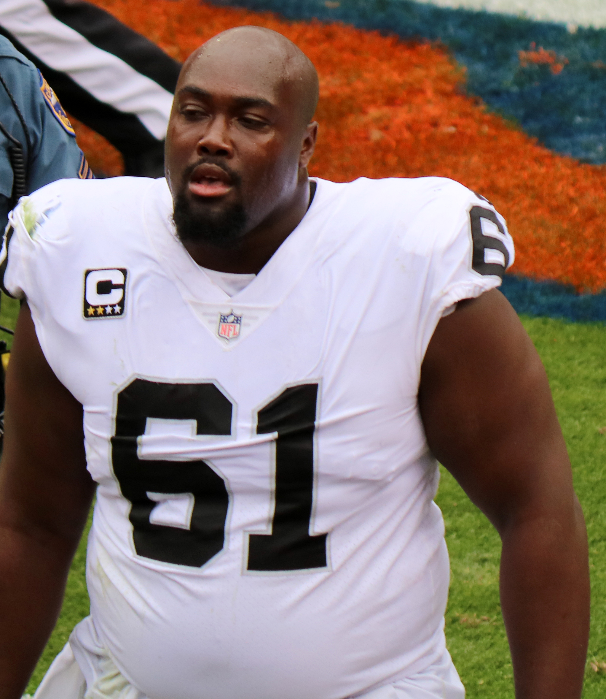 Rodney Hudson, a player on the National Football League.